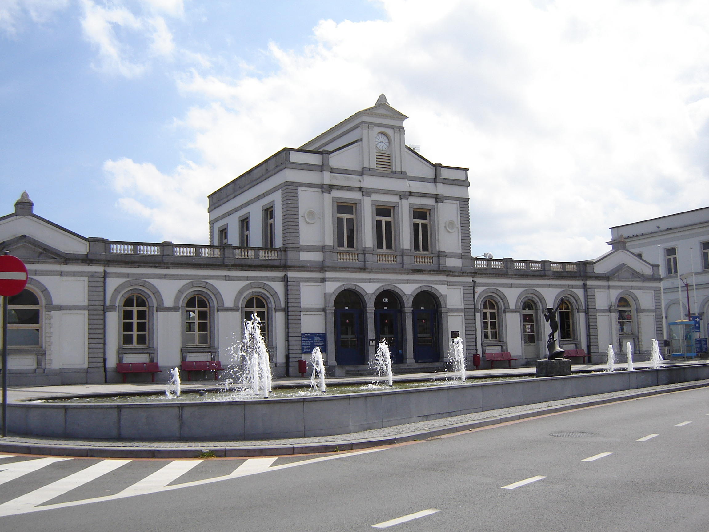 Railway station of Ronse, East Flanders, Belgium.